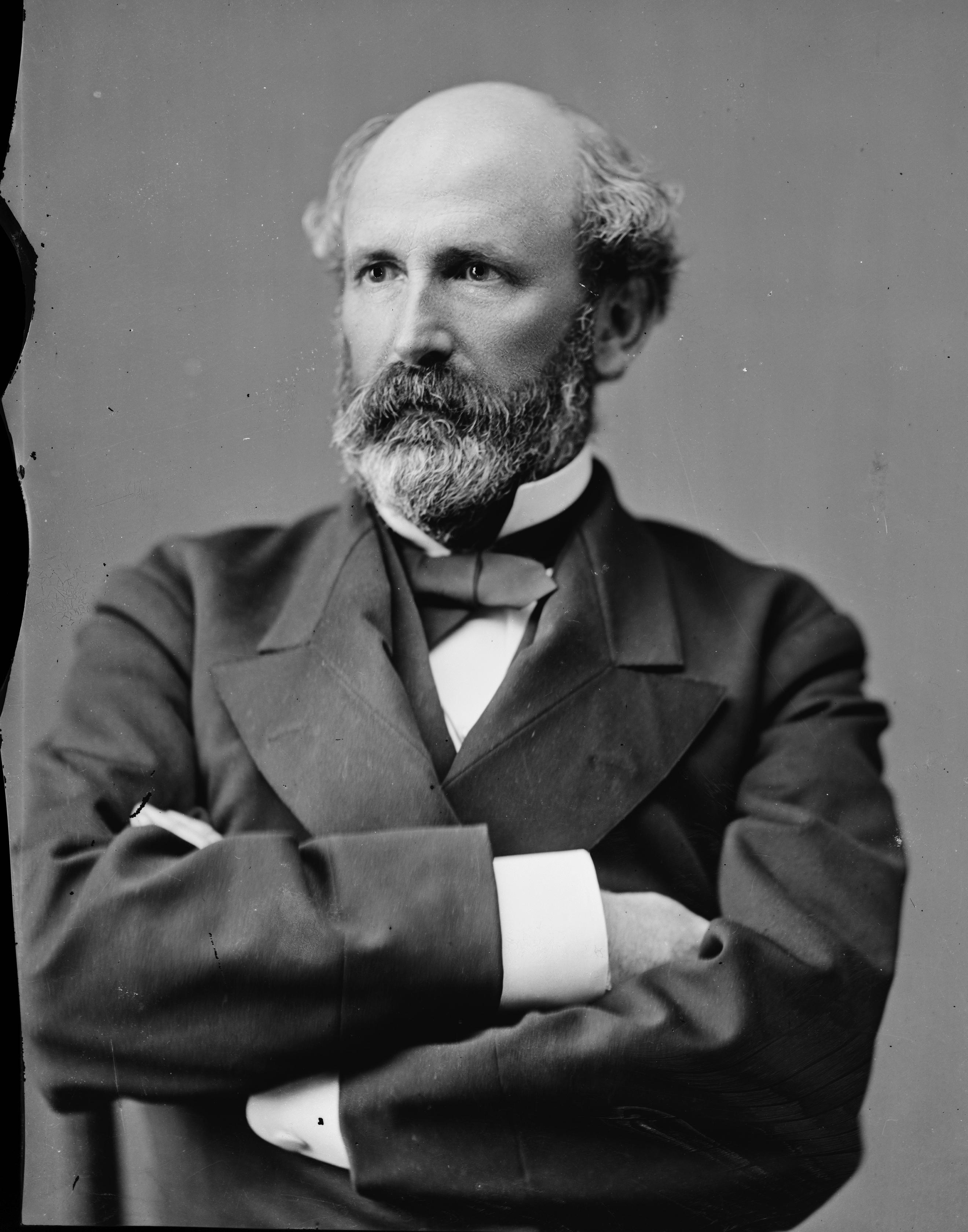 Matt Whitaker Ransom (1826–1904) was a Democratic United States Senator from the state of North Carolina between 1872 and 1895.